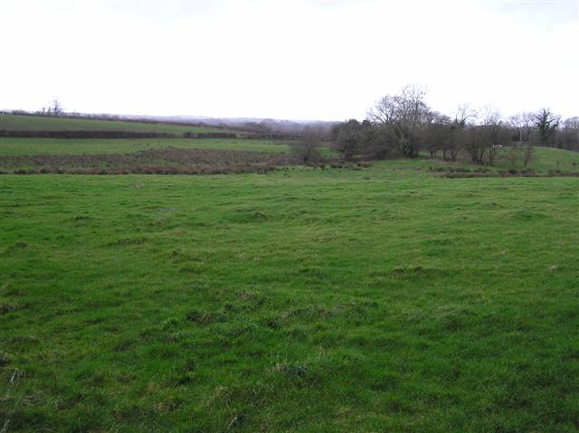 Appletee Townland Looking west in the direction of Clarkestown